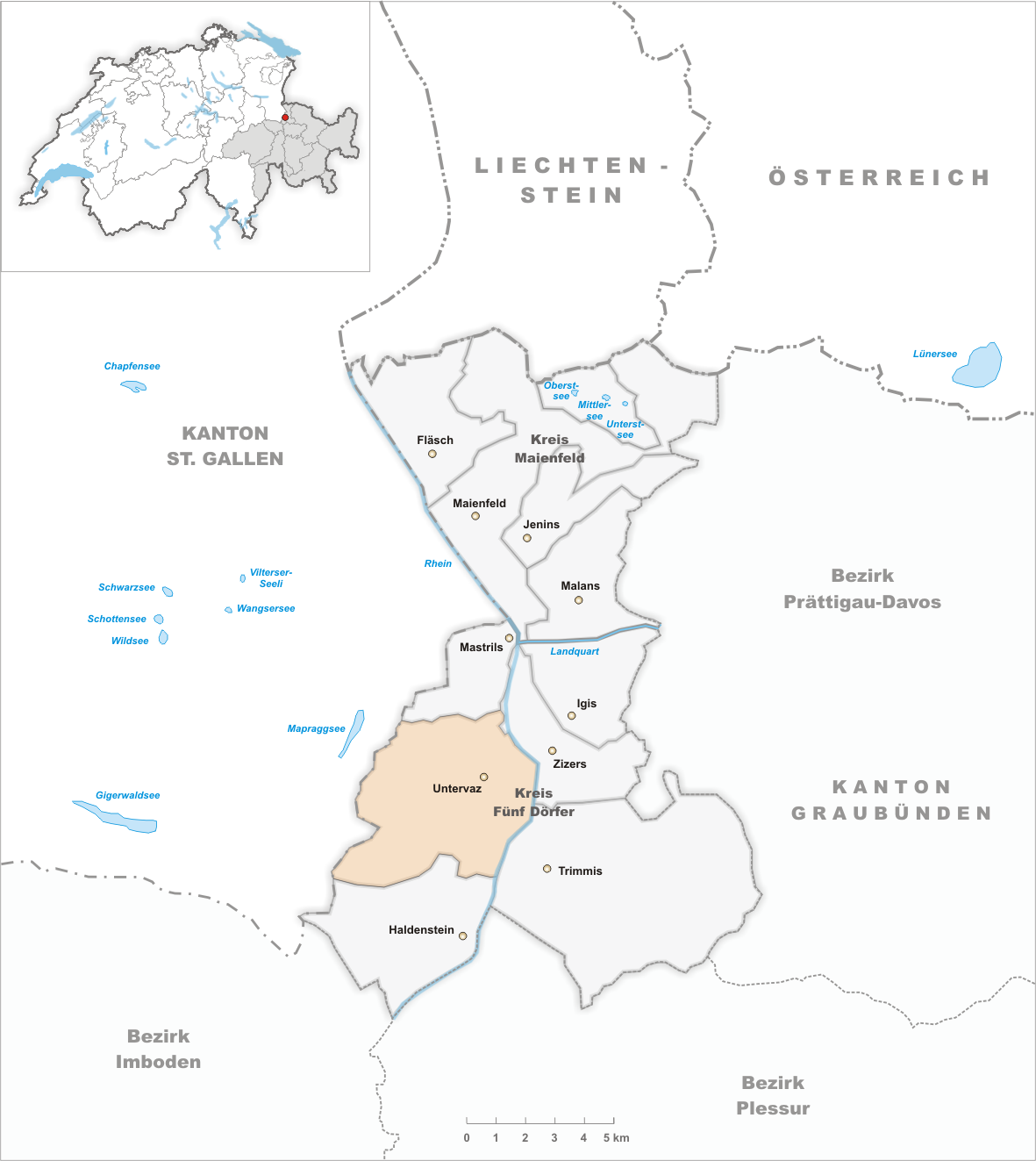 Municipality Untervaz